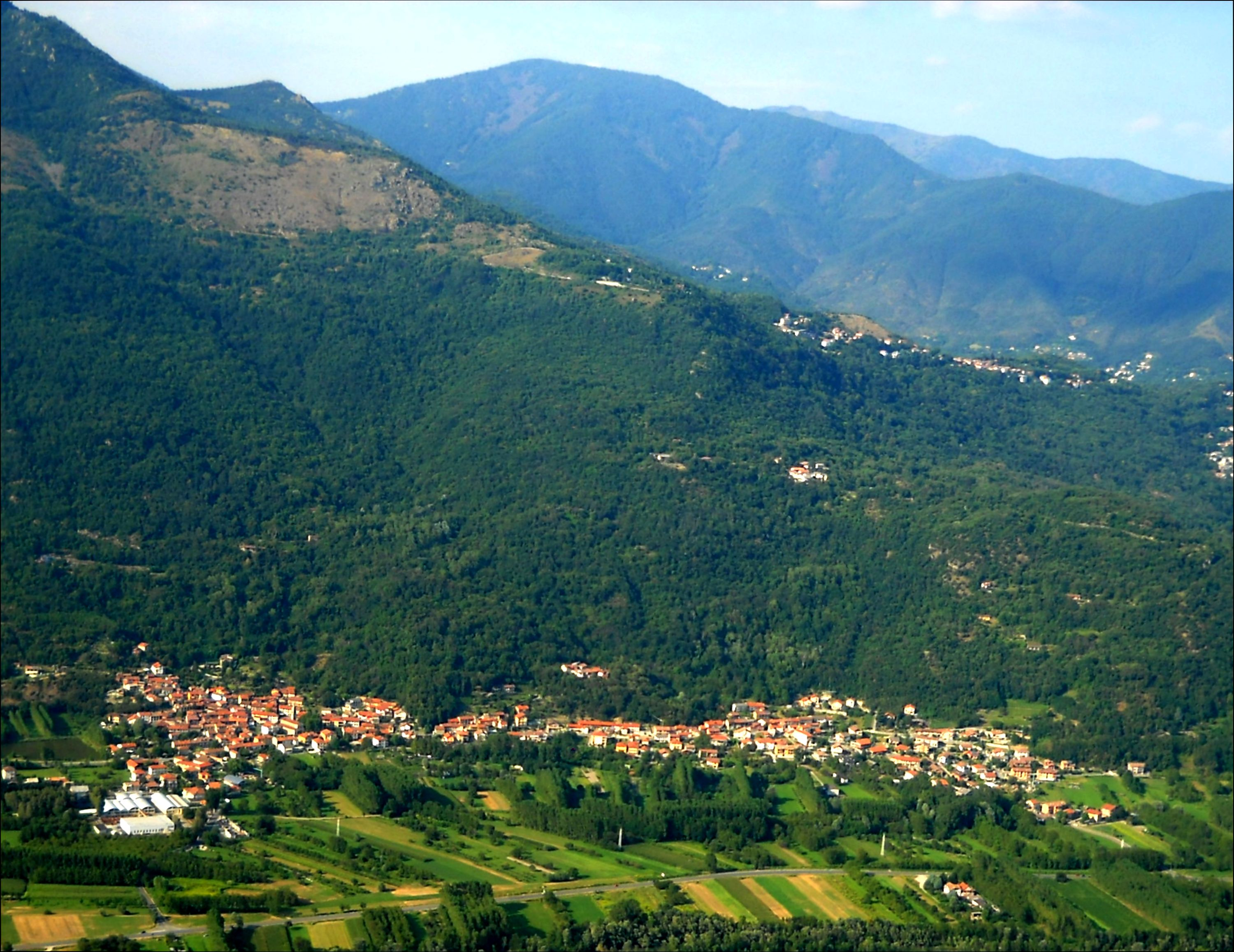 Picture of Novaretto, hamlet of Caprie (Turin), from the Saint Michael’s Abbey in Susa Valley.